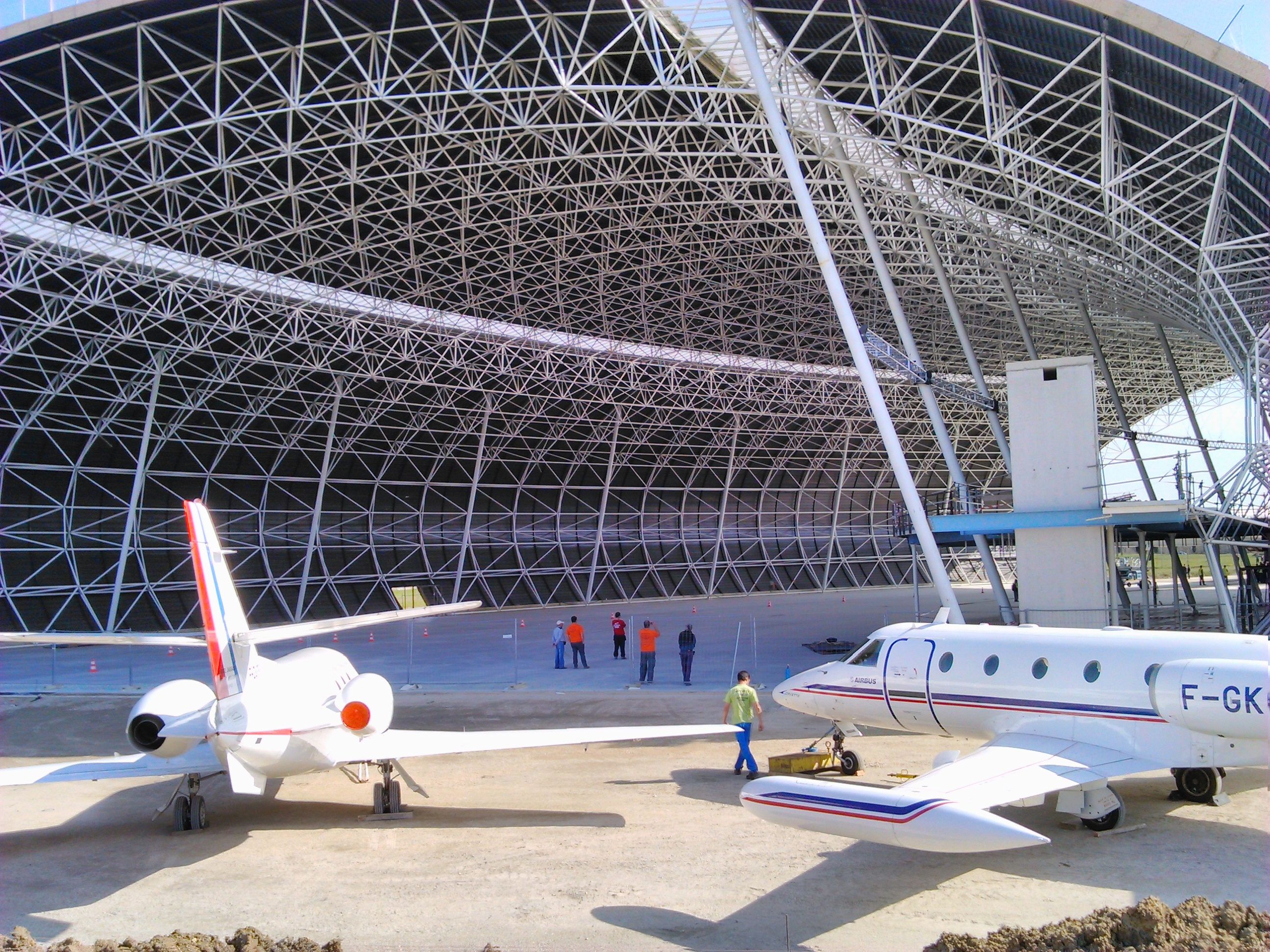 Falcon 10 and Corvette outside the museum Aeroscopia wainting for the establishment of Concorde.